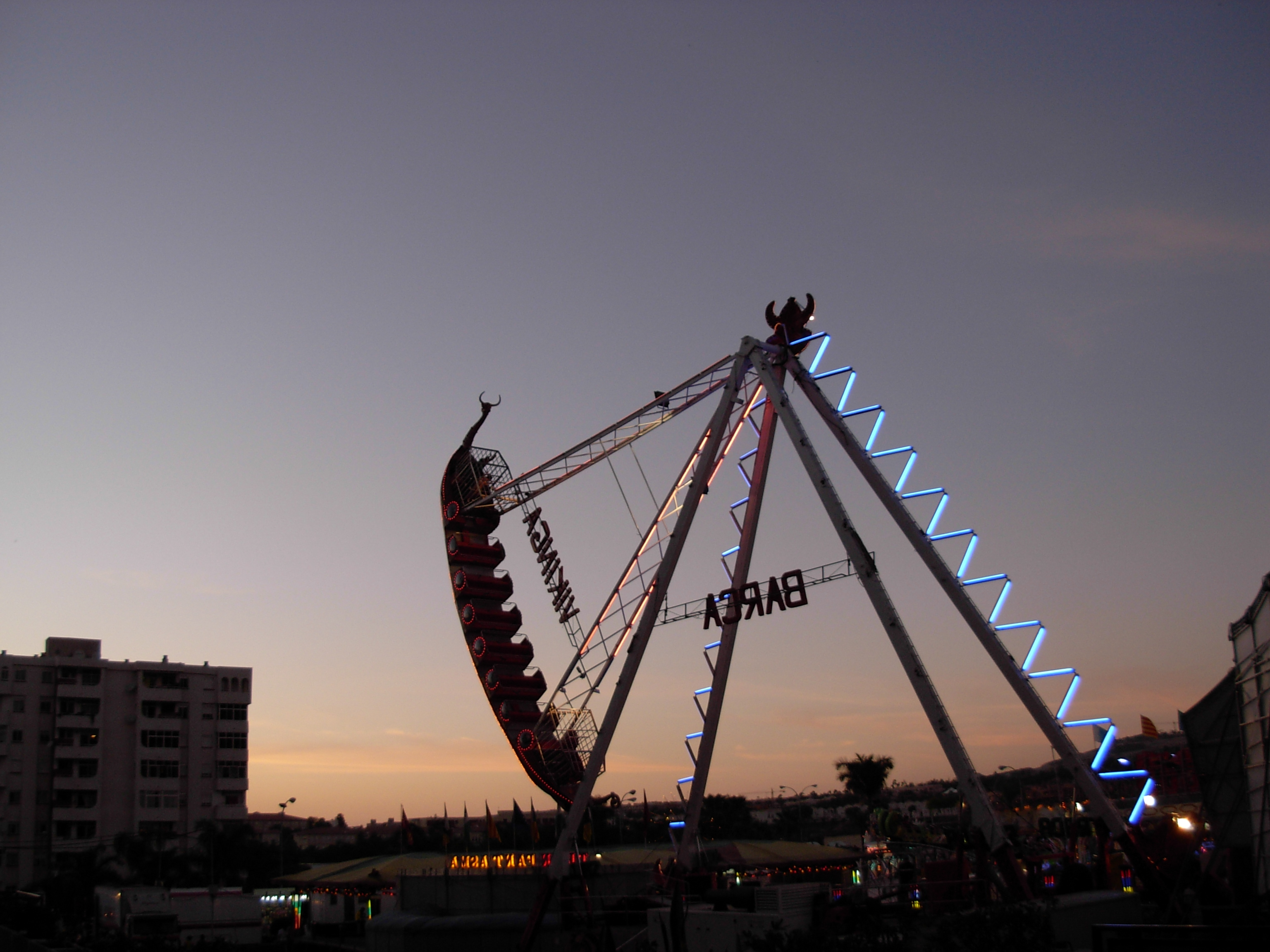 Amusement park attraction. Los Christianos. March 2007. Photo by myself.